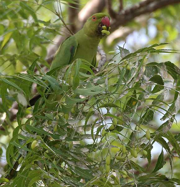 Psittacula krameri feeding on Azadirachta indica Neem fruits in Amaravati, Andhra Pradesh, India.